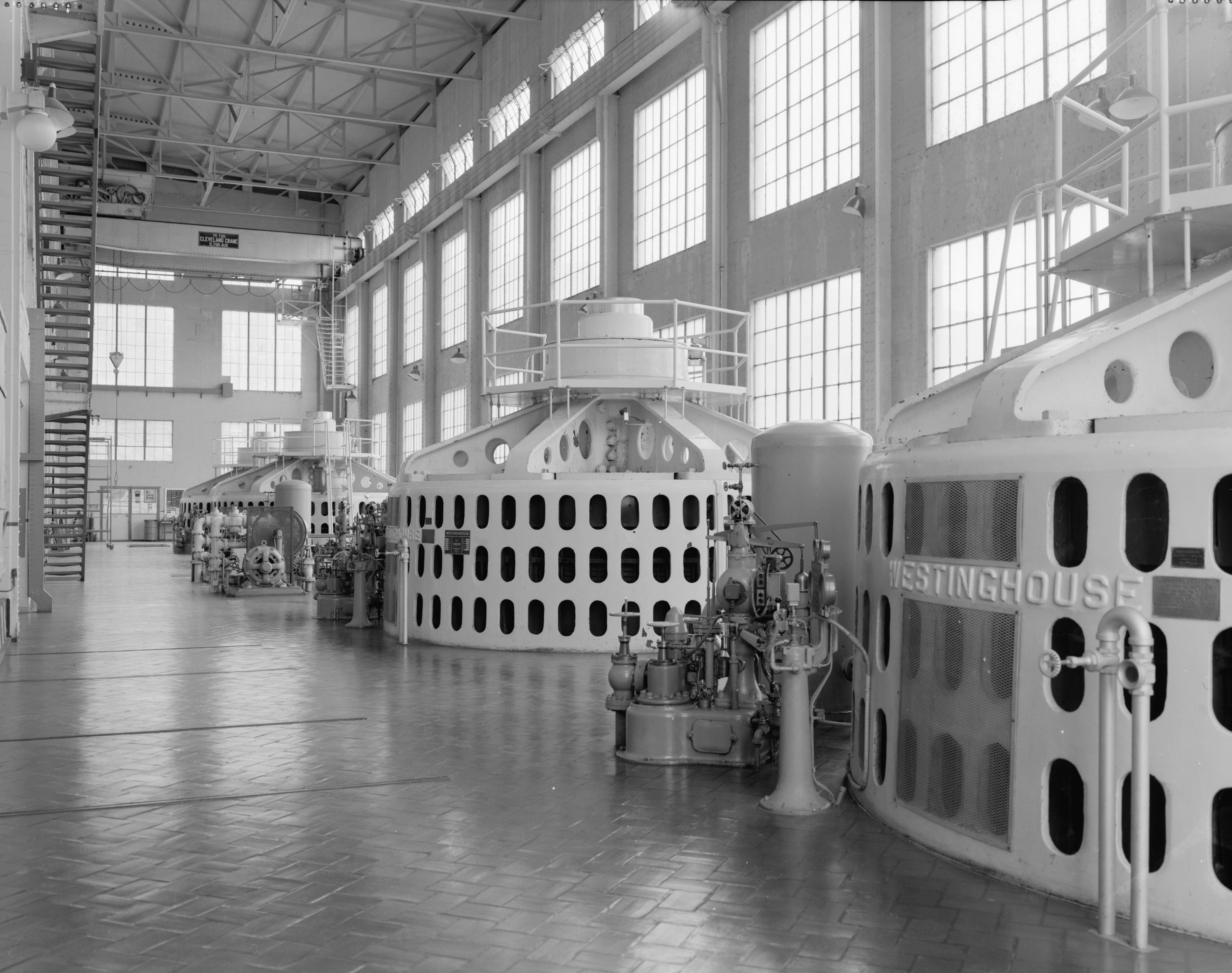 Looking southwest inside the powerhouse of Holter Dam, Lewis & Clark County, Montana, United States in 1994. Generator unit 1 is in the foreground.